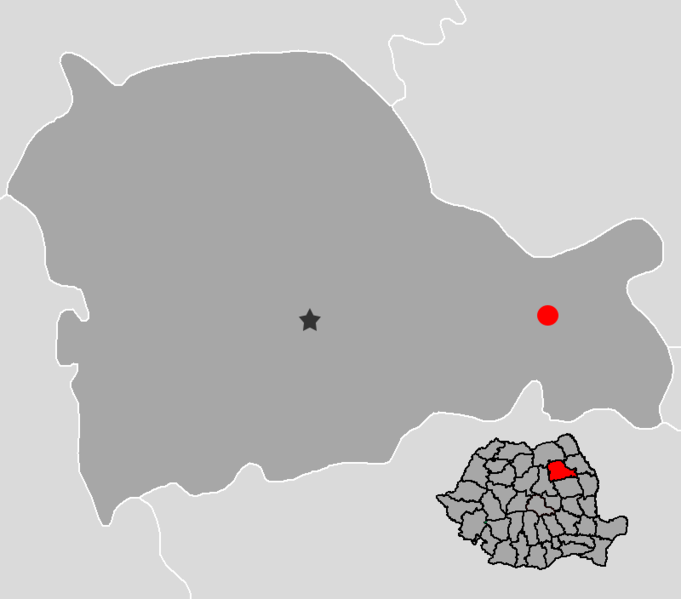 Source:Base Neamt.png